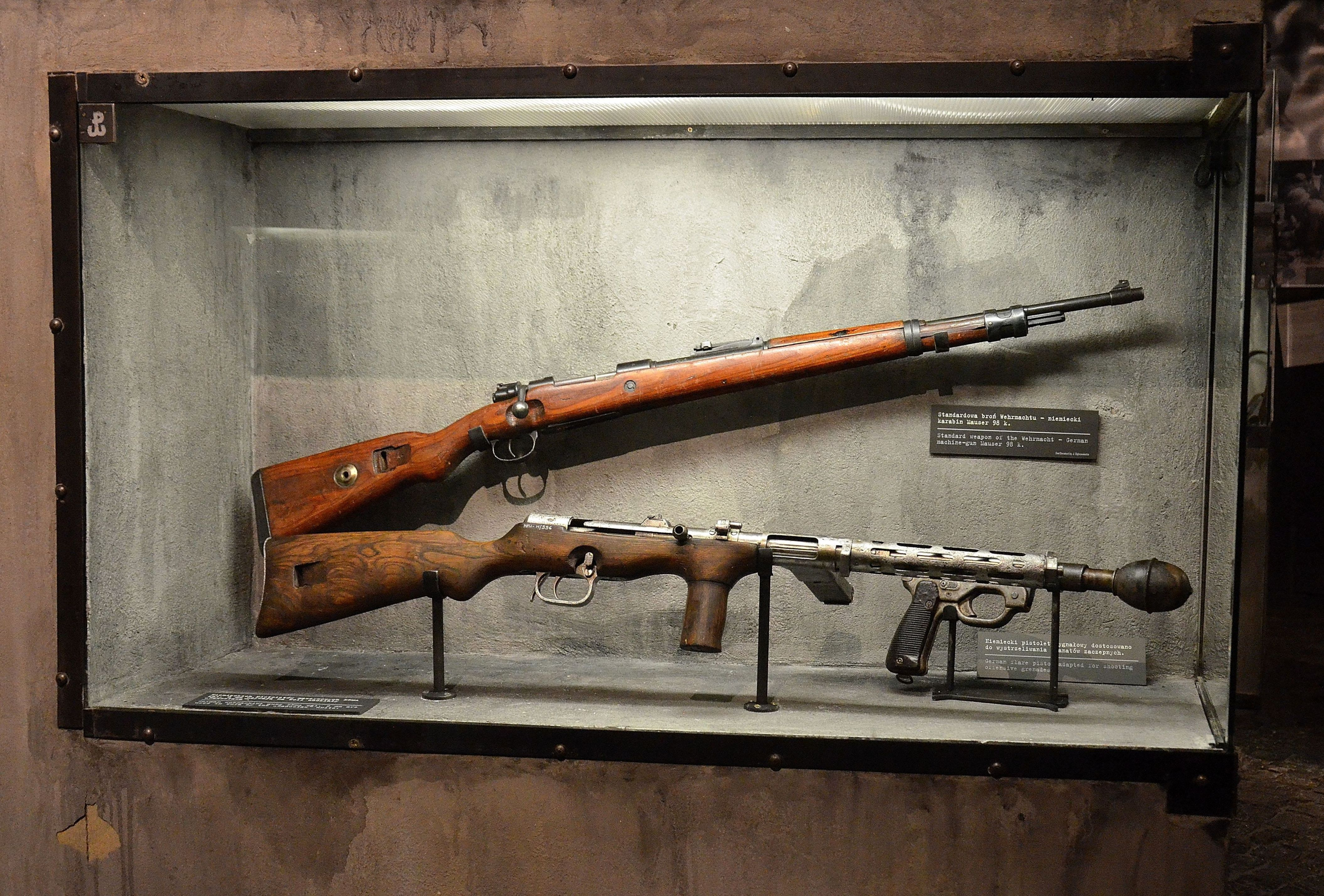 Machine guns: Karabiner 98k (above) and ERMA Maschine Pistole (EMP) cal. 9 mm (below) in the Warsaw Uprising Museum. The third one, a gun, is also visible English | Polski | +/−